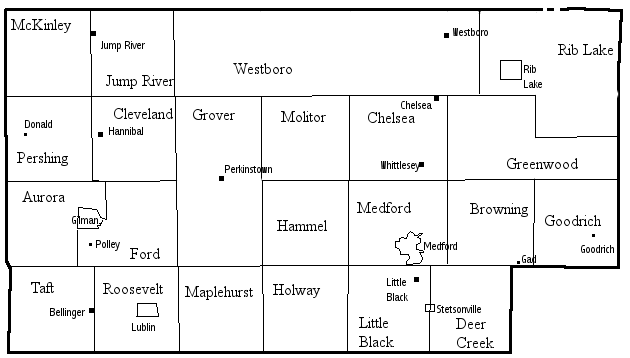 Civil units of Taylor County, Wisconsin, etc.